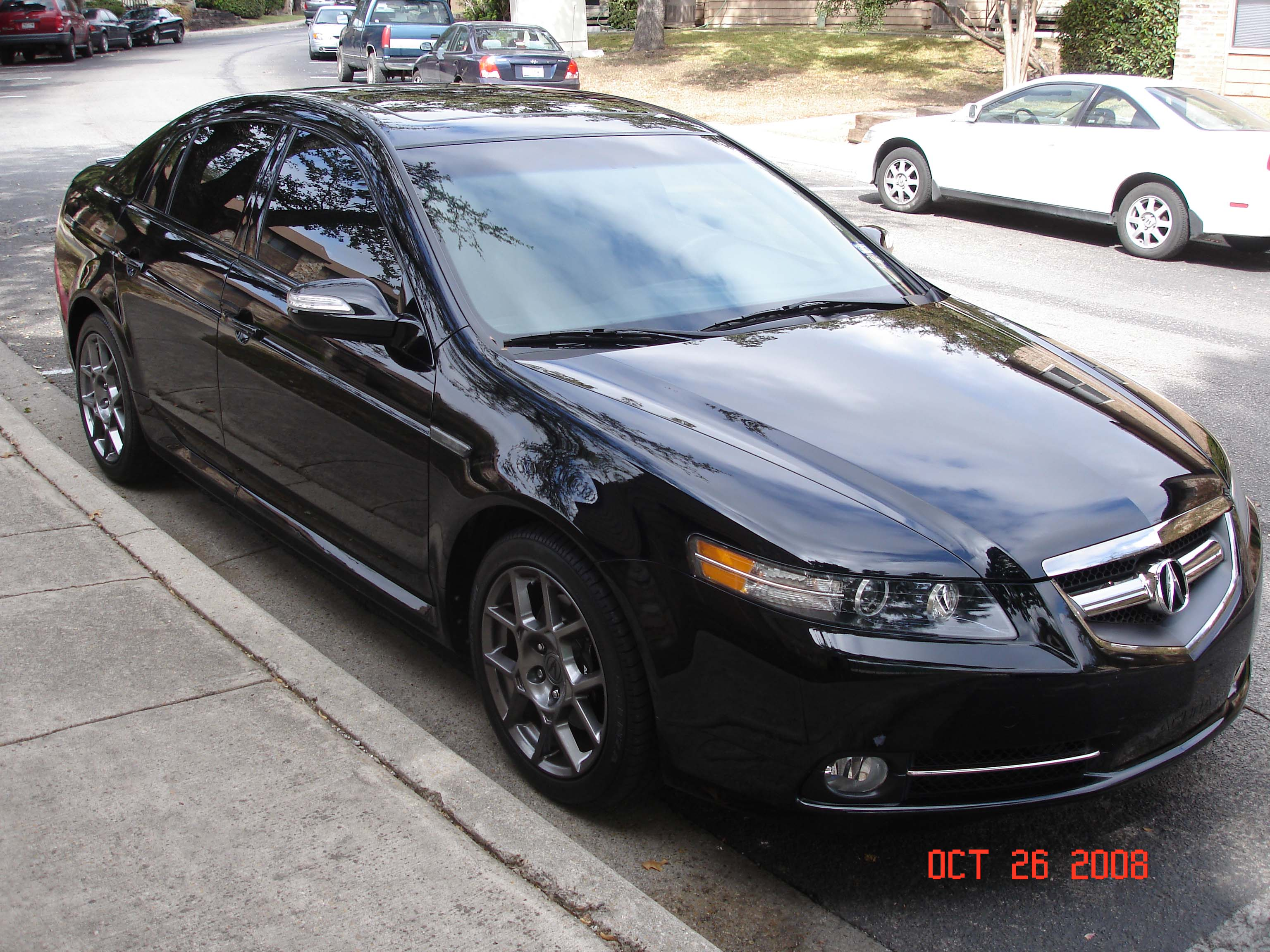 2007 Acura TL Type-S